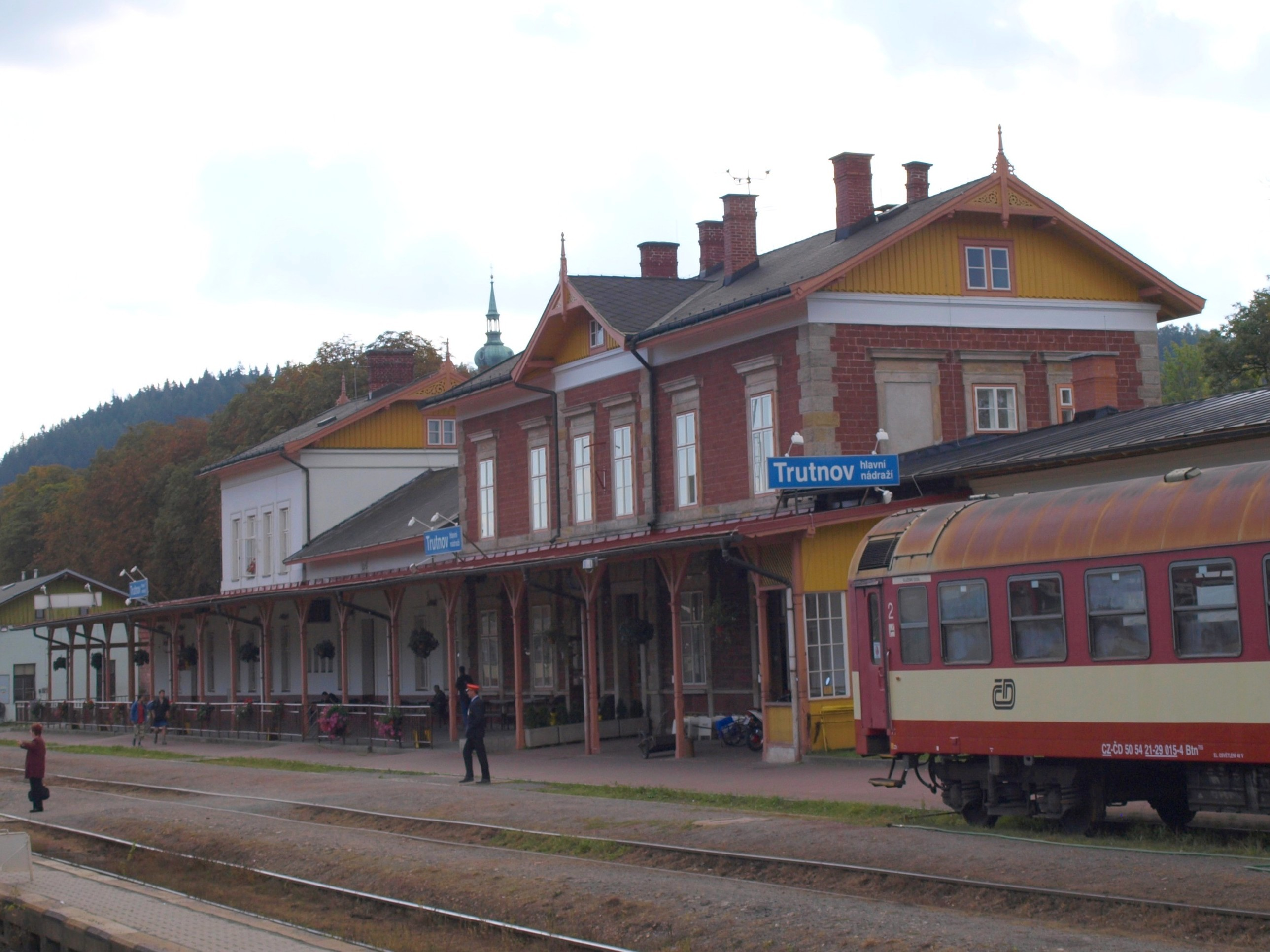 Trutnov main station